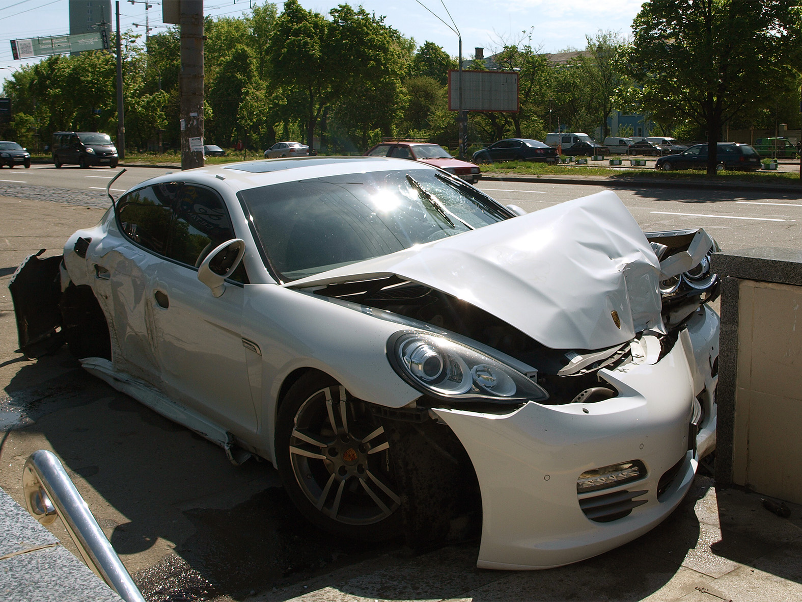 Crash of a Porsche Panamera.